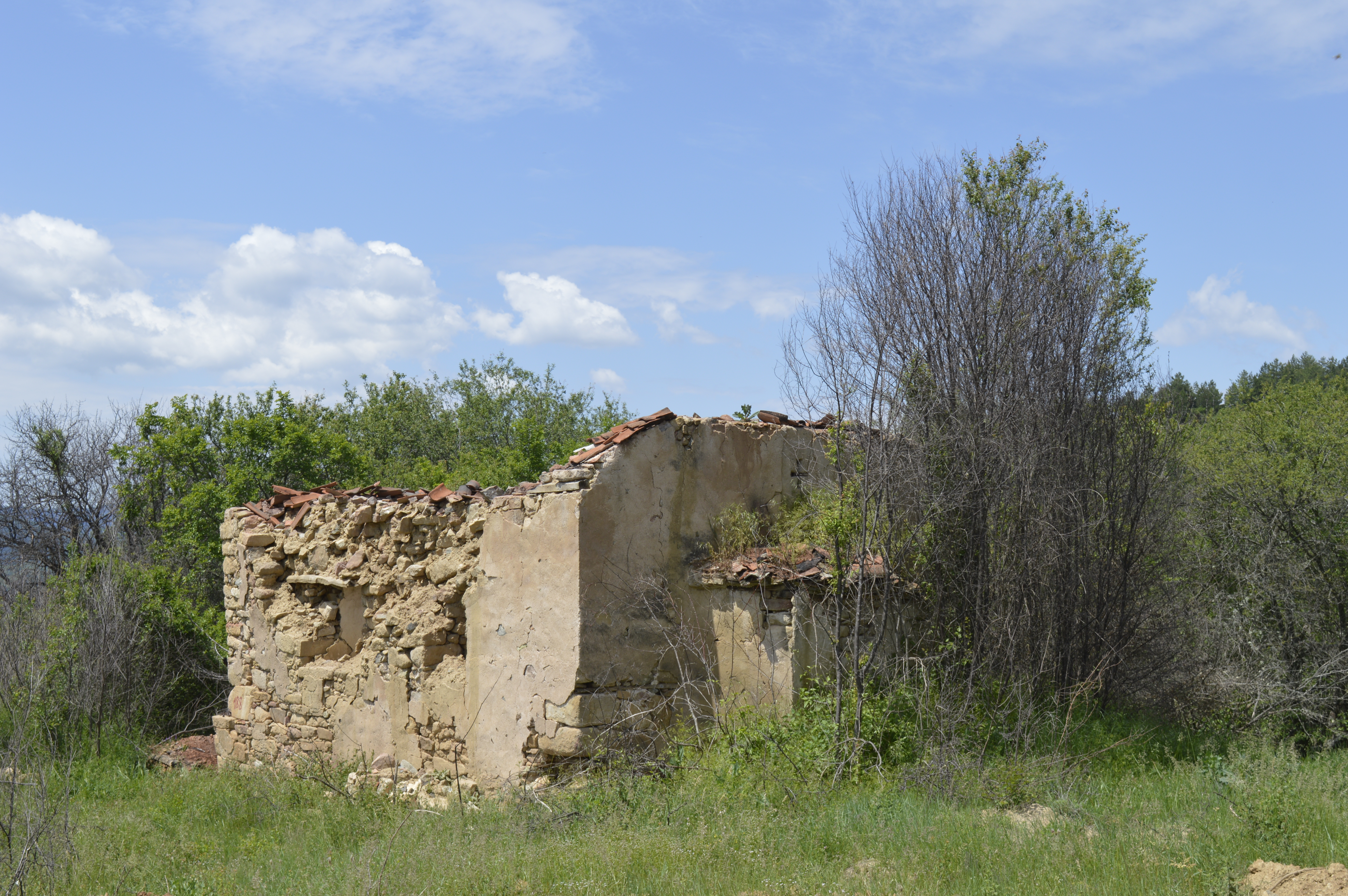 Ruined church of the Ascension of Jesus in the village Pančarevo